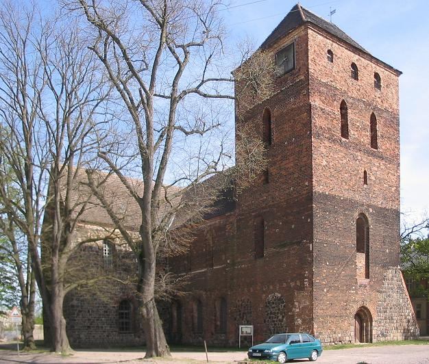 Stonechurch in Zahna, built probably before or around 1200. First german church in the landscape Fläming, which was settled by slavic tribes from ca. 7th century until this time. The town Zahna, district Wittenberg, state Saxony-Anhalt, Germany, is situated in the Nature park Fläming.